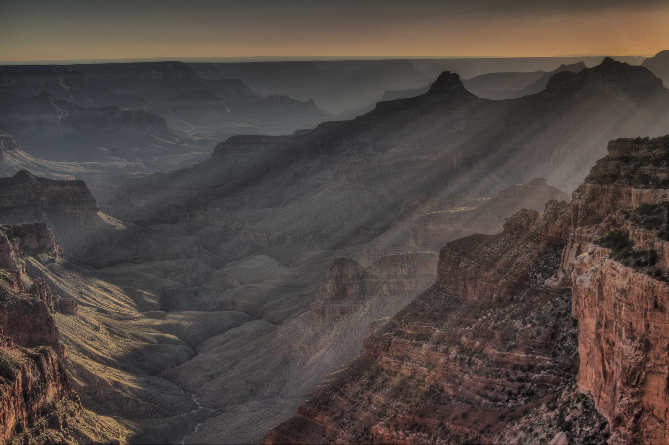 Cape Royal, GCNP. North rim of GC